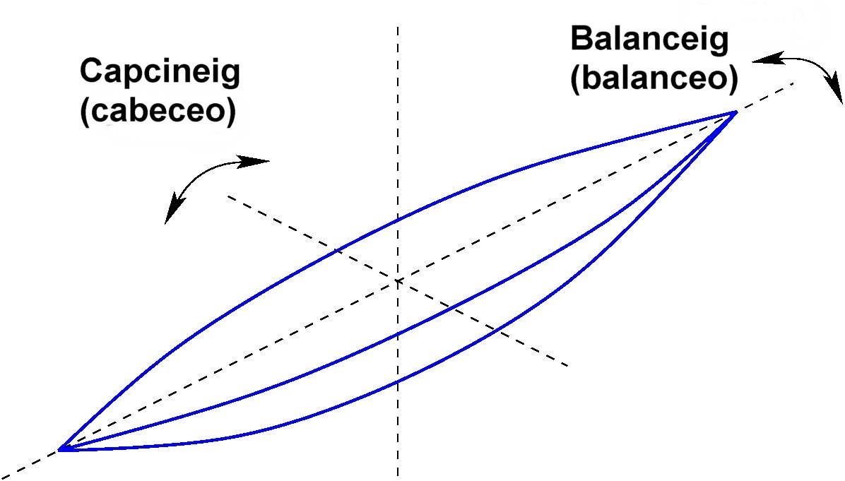 Rolling-pitching (Balanceig-capcineig) movement of an ·anagyr""